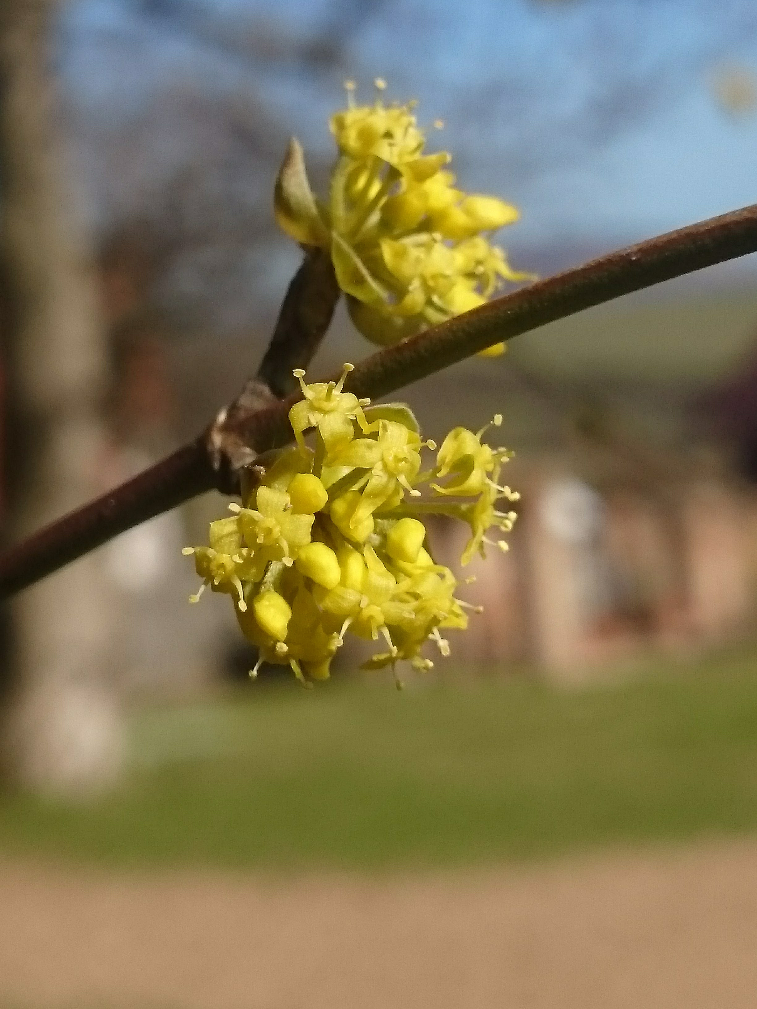 Cornus Mas flowering in march 2017, Mulberry Garden Czech republic